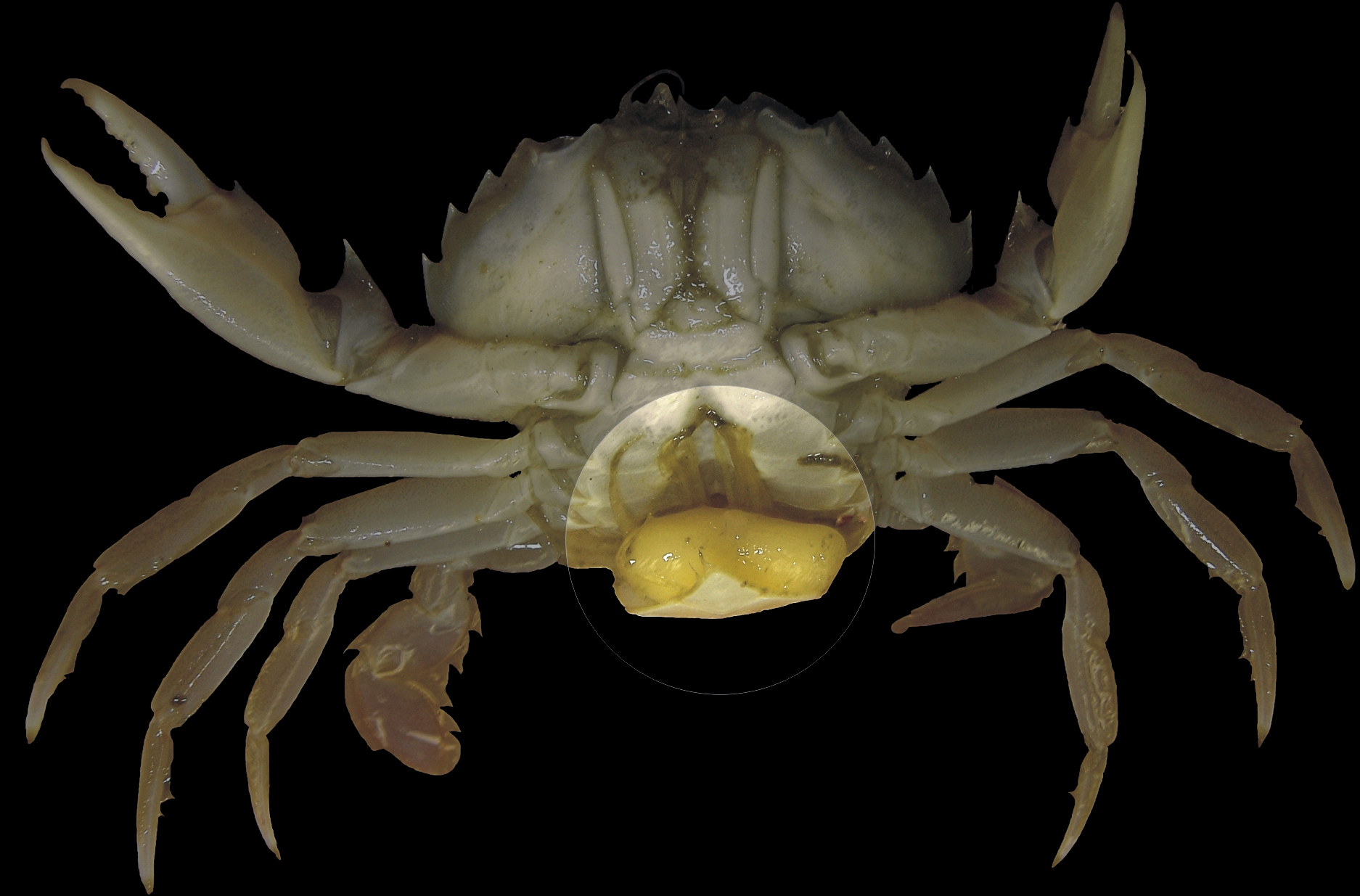 A parasitical barnacle on a female swimming crab, from the Belgian coastal waters (Westdiep).